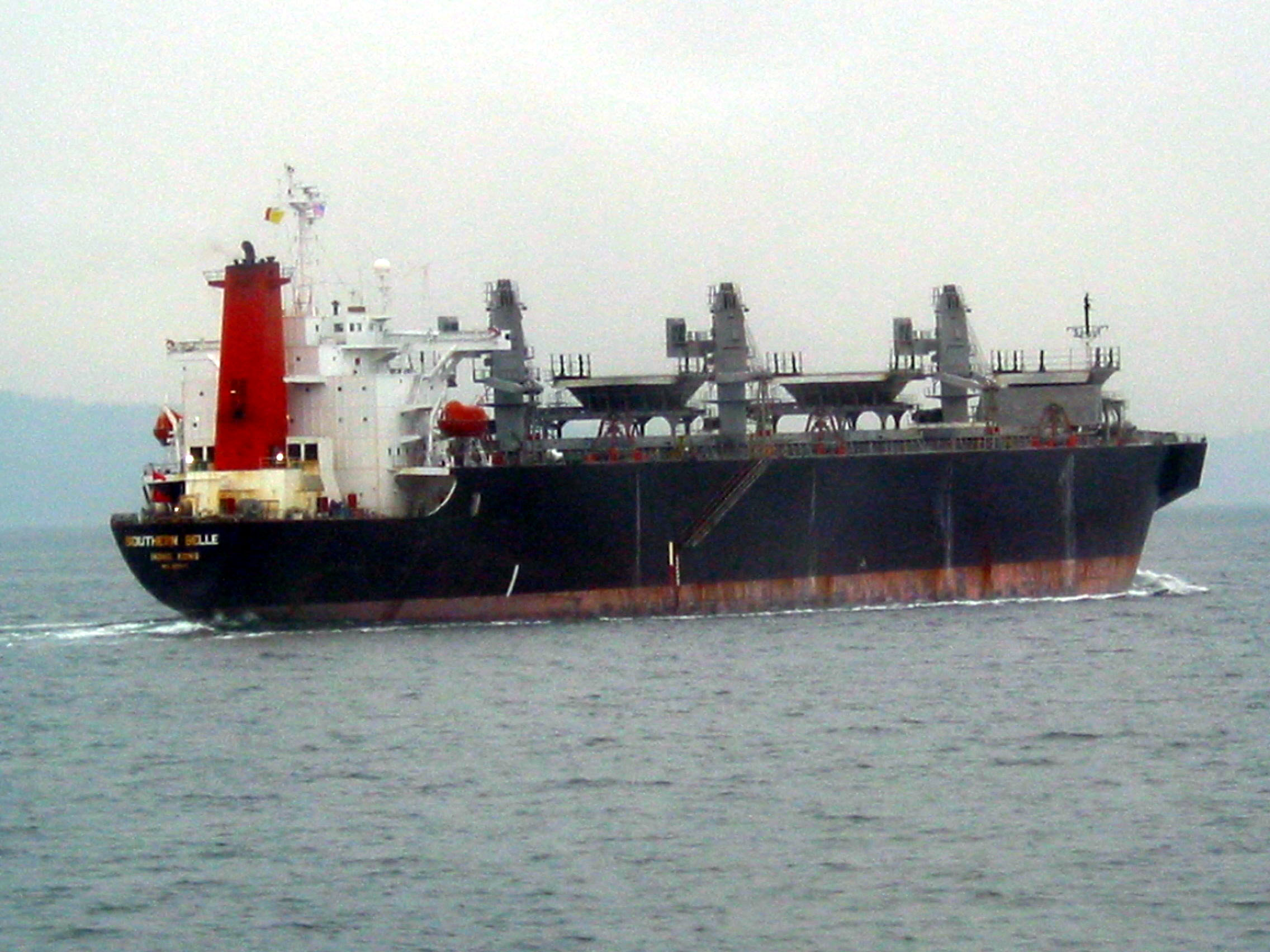 The Southern Belle, 34 000 DWT bulk carrier built in 1988, designed to carry woodchip. IMO Number: 8805212 MMSI Number: 477632000 Callsign: VRVT7 Length: 203.0m Beam: 32.0m